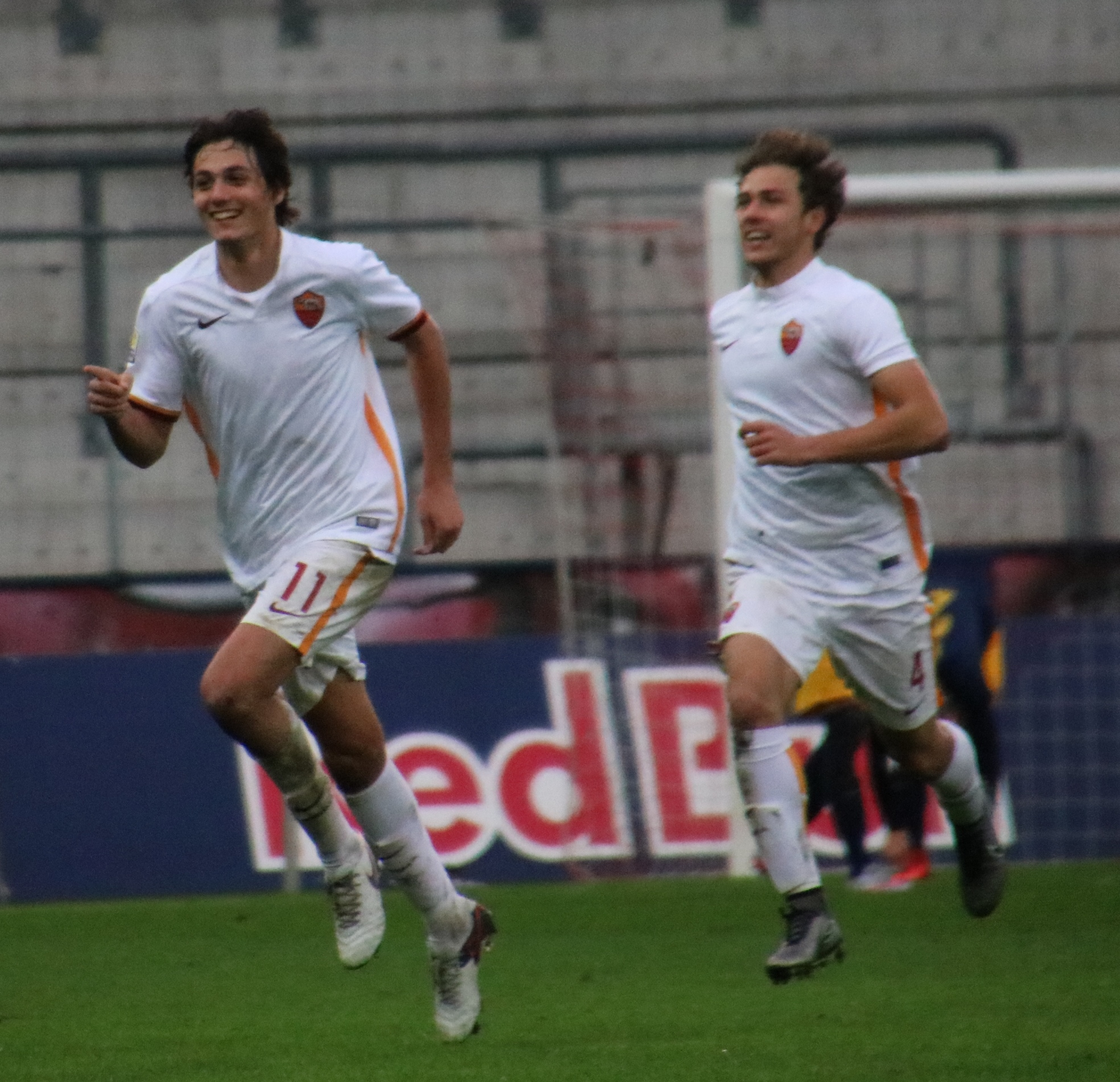 UEFA Youth League match